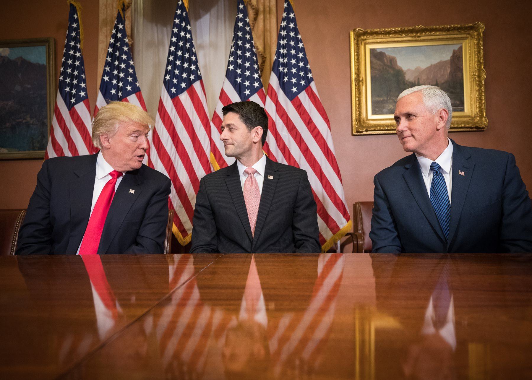 Speaker Paul Ryan meets with the President and Vice Presidents-elect, Donald Trump and Gov. Mike Pence on Capitol Hill after their election.